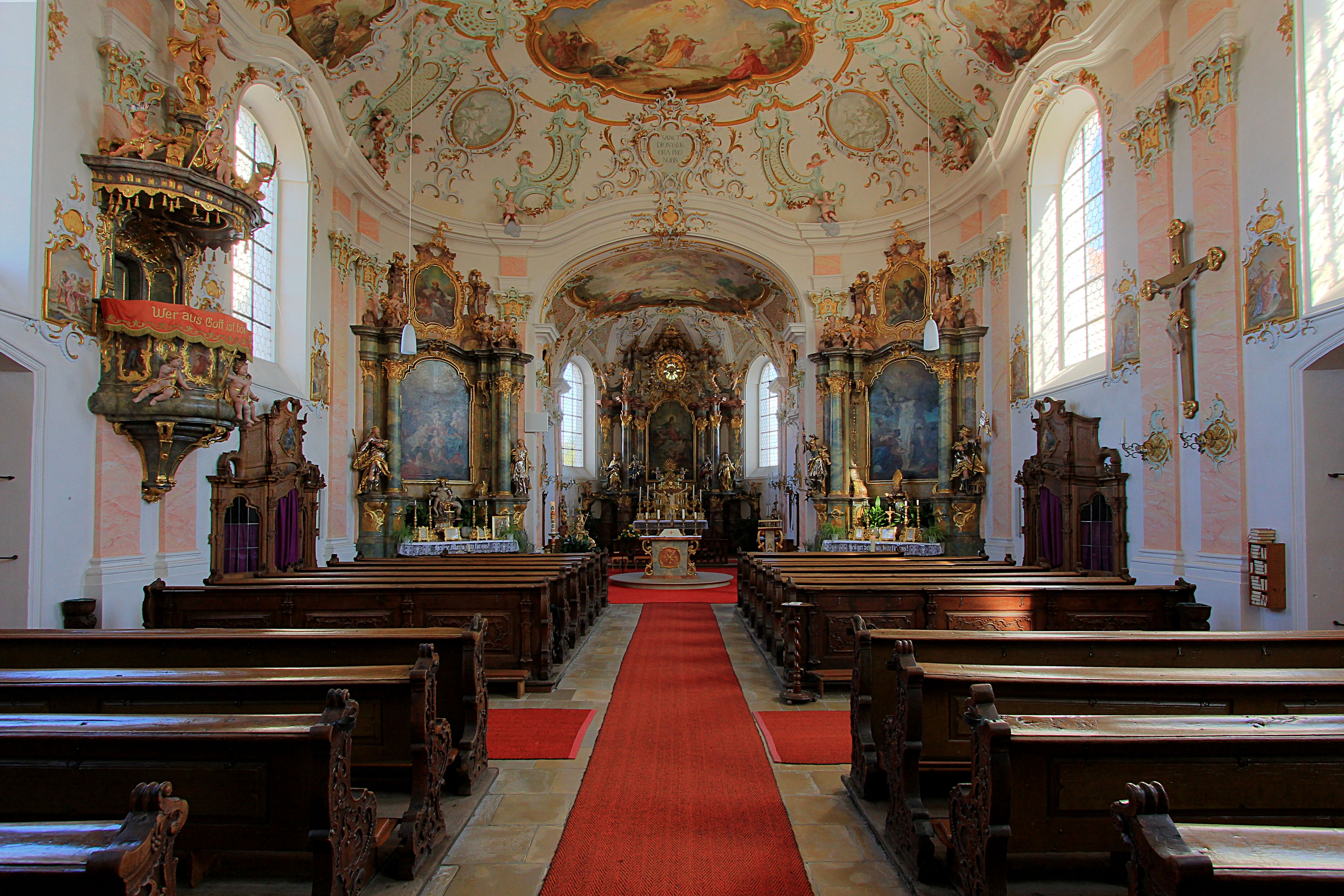 Fünfstetten (Kreis Donau-Ries, Bayern, Deutschland) Catholic Parishchurch St. Dionysius central view